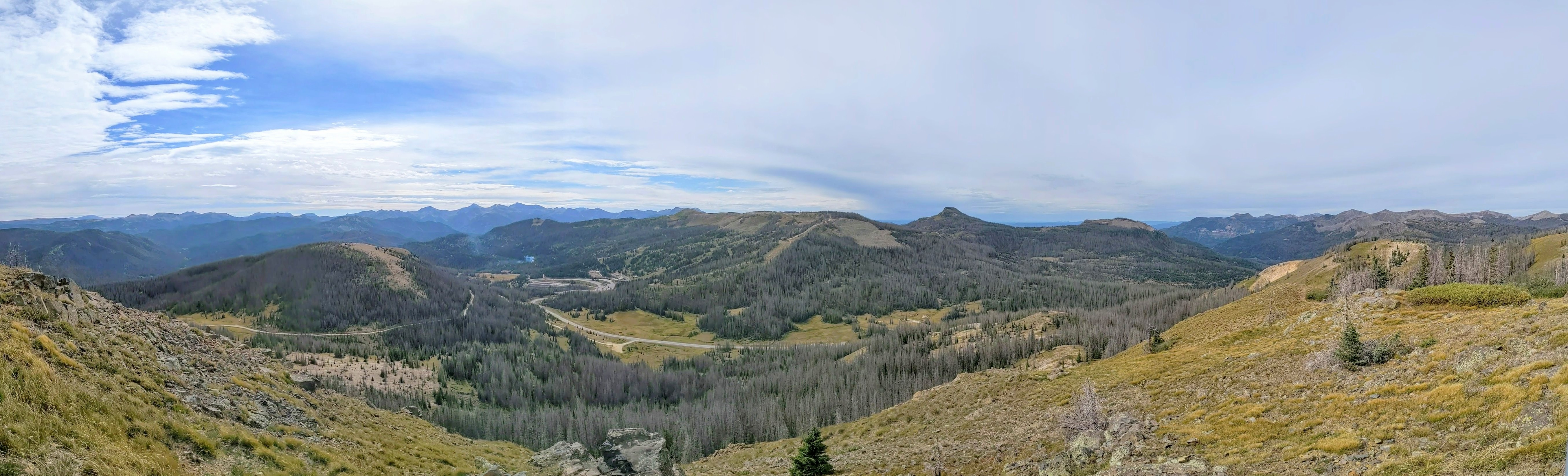 Panoramic view from Lobo Overlook on the continental divide north of Wolf Creek Pass, showing Colorado Highway 160 through the pass, and the Wolf Creek Ski Area